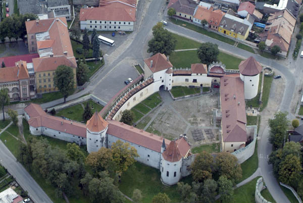 Kežmarok, Slovakia, castle, aerial photography